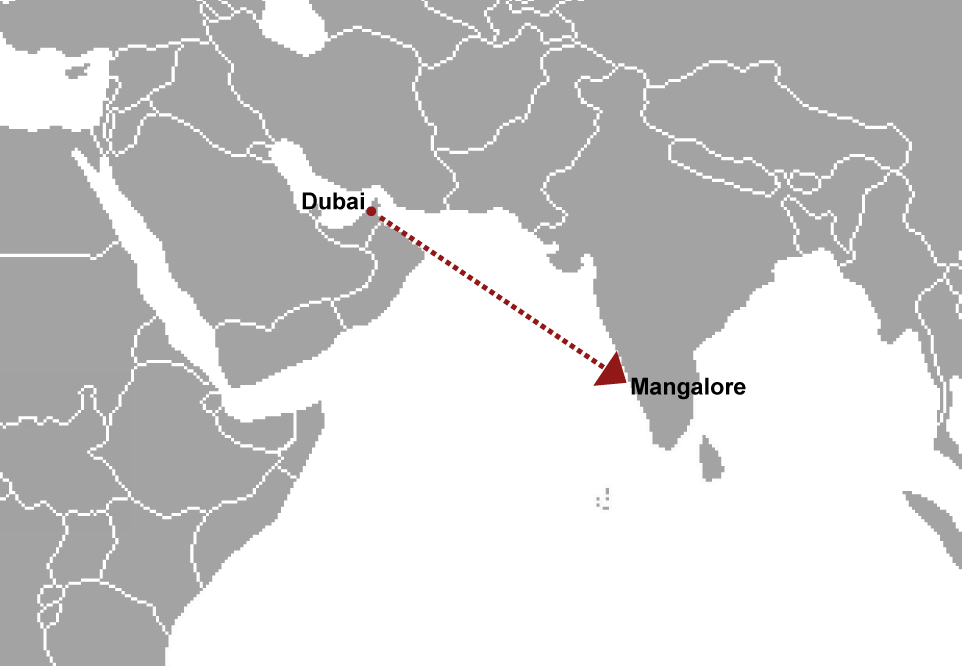 Route of Flight Air India Express 812, crashed on May, 22th 2010 near Mangalore, India